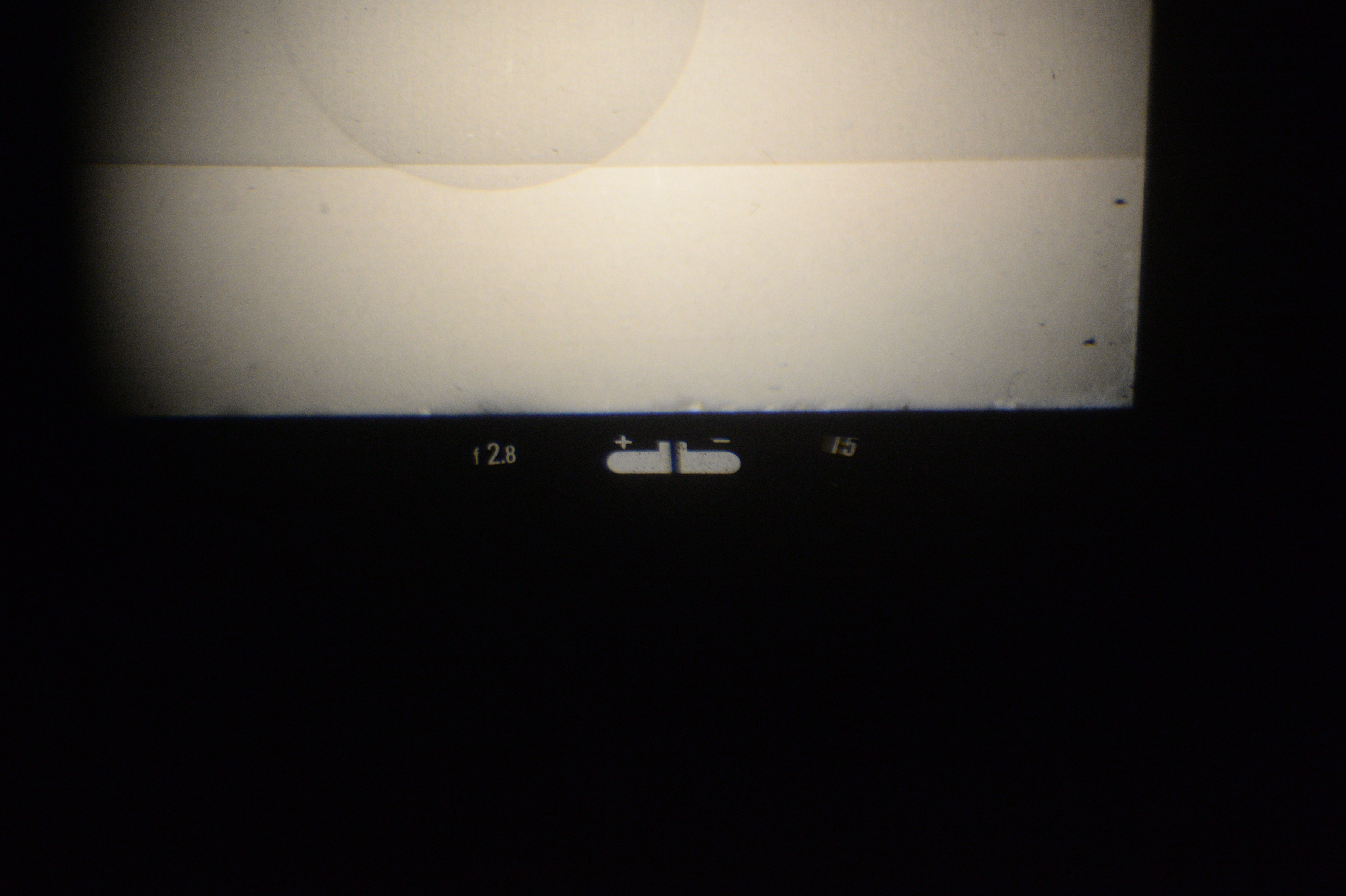 In viewfinder DP-1